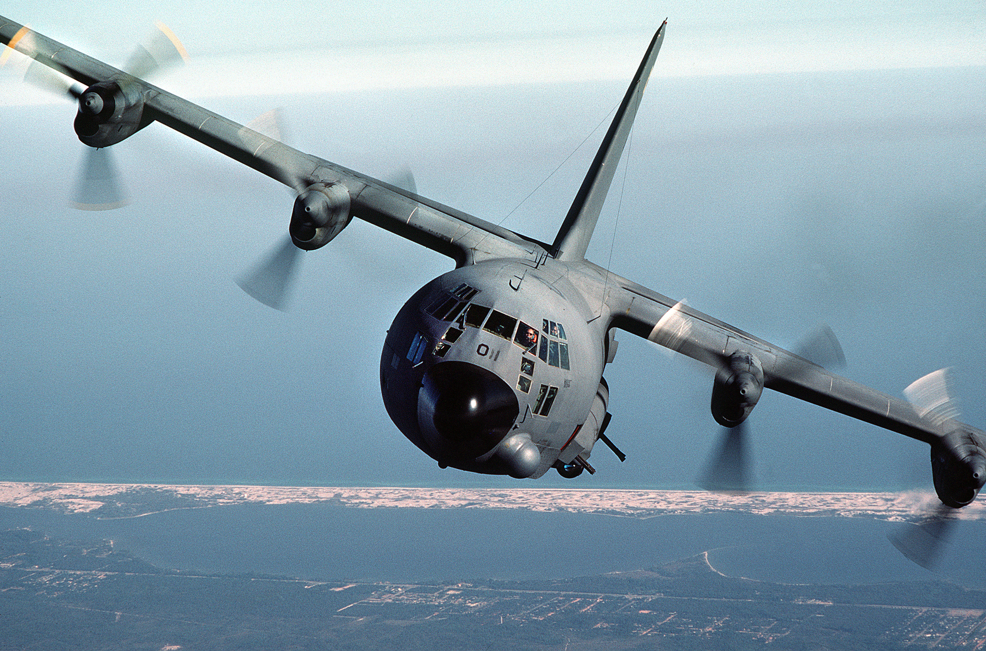 An AC-130A Hercules gunship aircraft performs a pylon turn near Hurlburt Field, Florida during a training mission. The aircraft is from the 919th Special Operations Group, Eglin Air Force Base Auxiliary Field 3 (Duke Field), Florida.